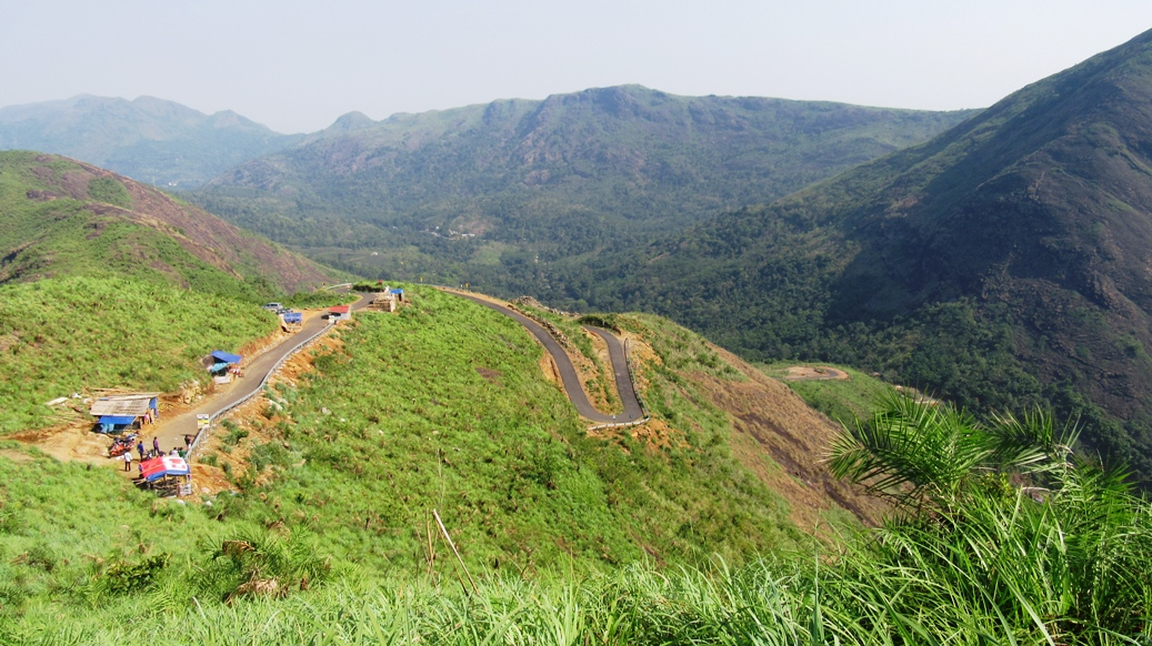 Roads leading to illikal kallu